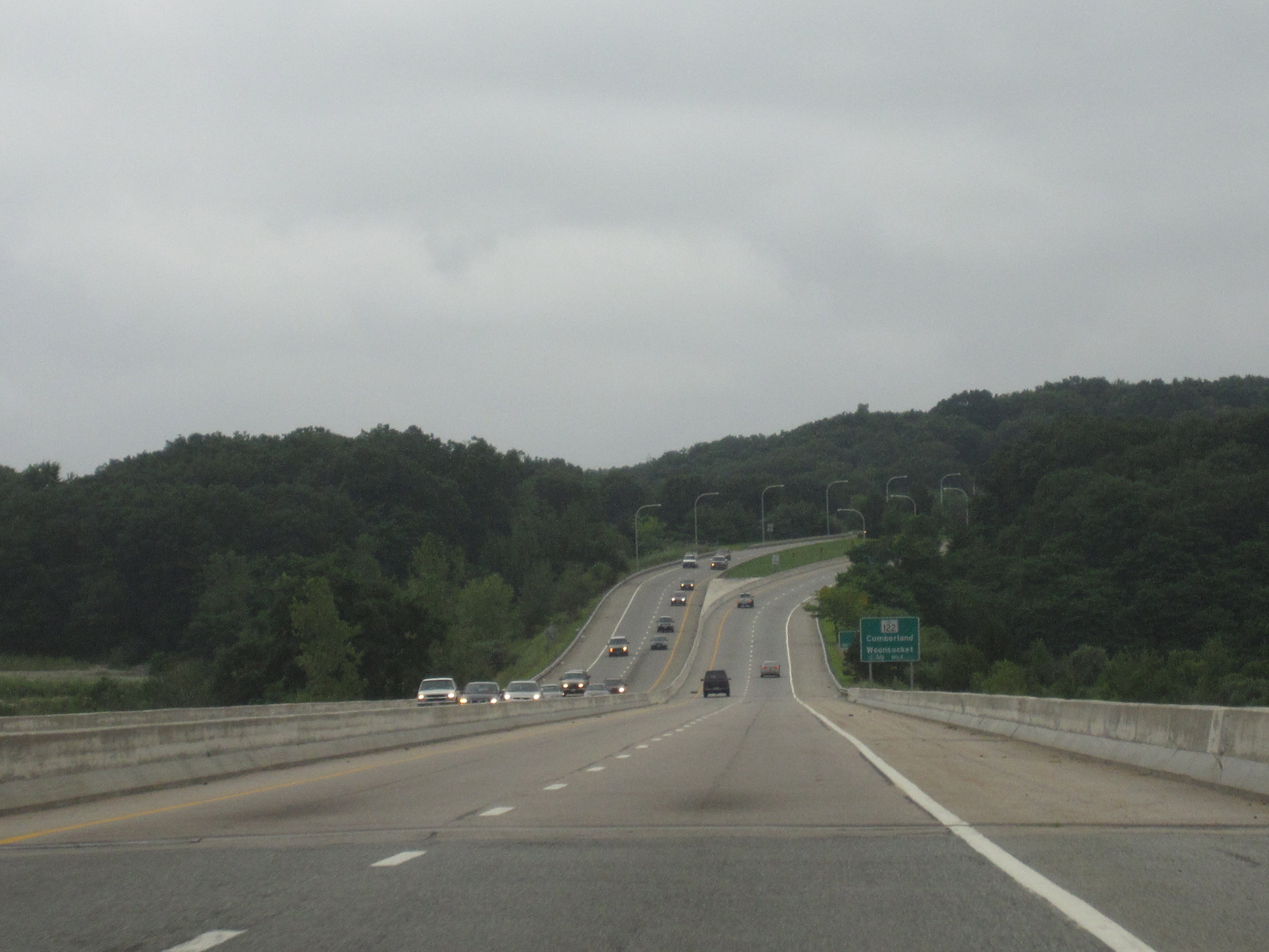 Rhode Island Route 99 north in North Smithfield, RI, looking toward the Blackstone River Bridge